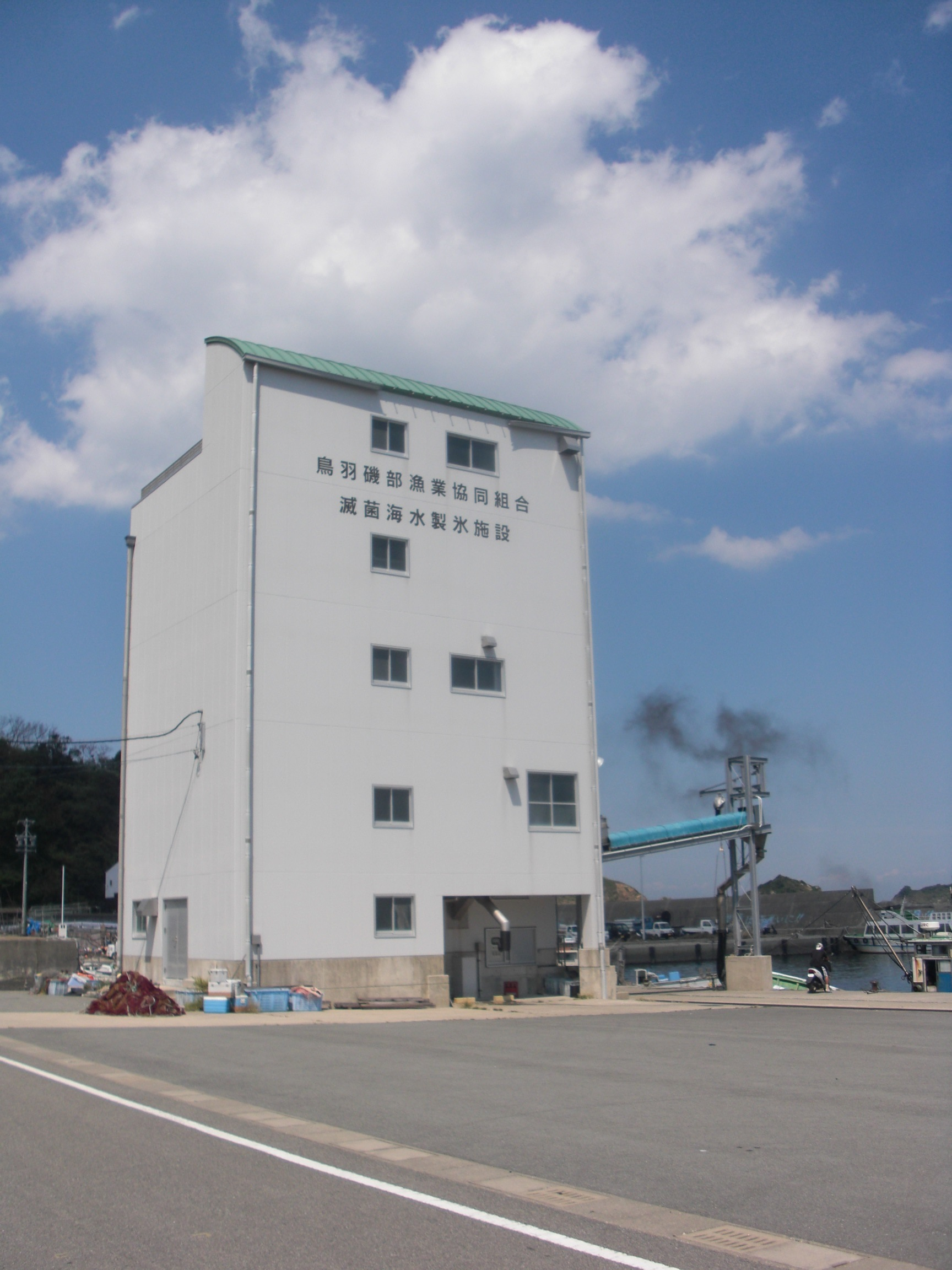 This is the sterilized seawater ice-making building of JF Toba Isobe in Toshi island, Toba, Mie, Japan.